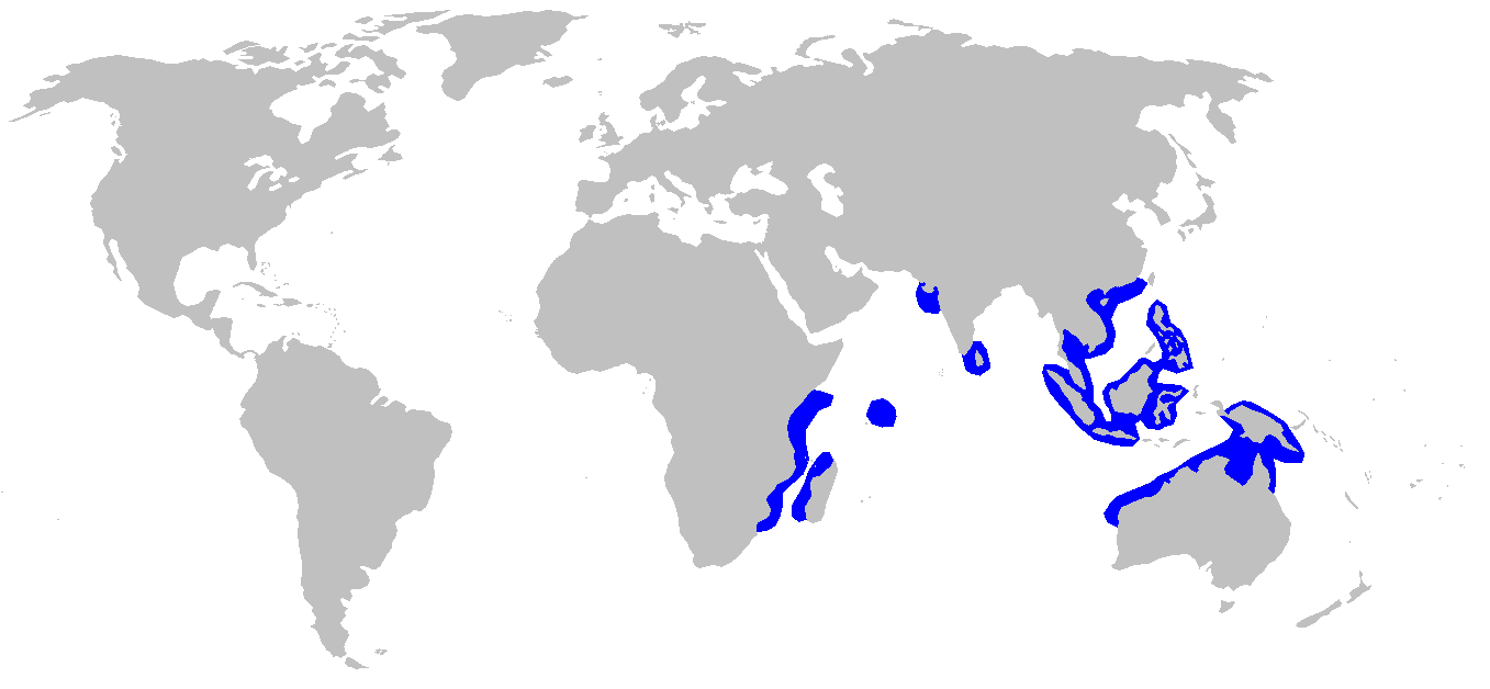 Distribution map for Carcharhinus sealei